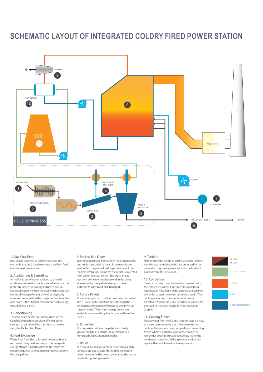 Schematic Layout of Integrated Coldry Fired Power Station Coldry Process